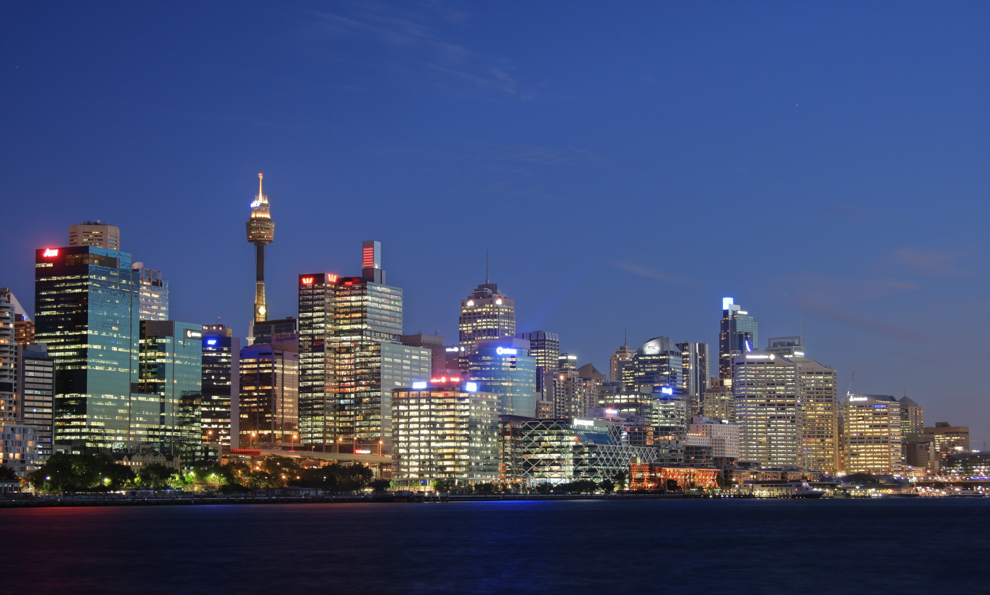 Sydney sunset from the Balmain wharf. Sydney Australia